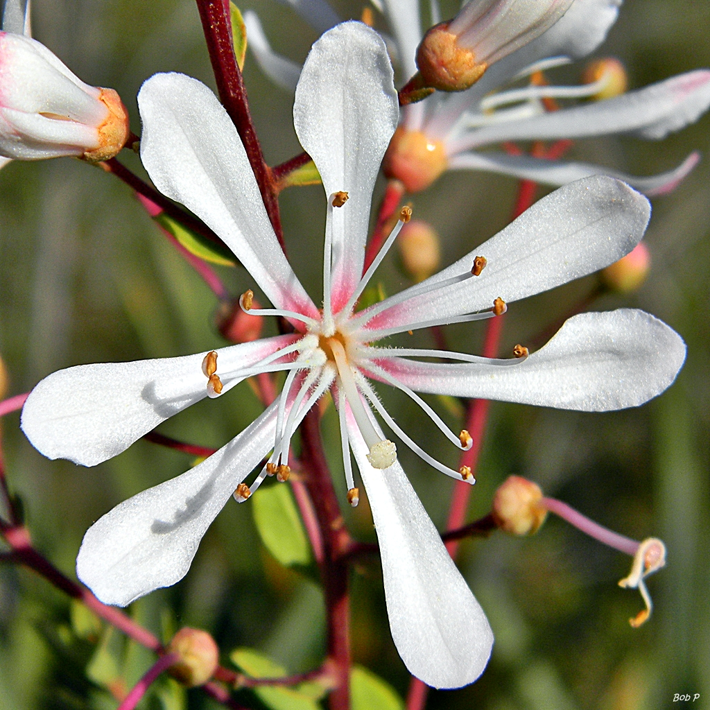 This particular shrub was the only tarflower I found in bloom over a several mile long walk. It is also called fly weed and fly catcher as the petals are extremely sticky and trap small insects. It does not appear to use the insects for food though and is not actually carnivorous. The above flower is approximately 50mm across.